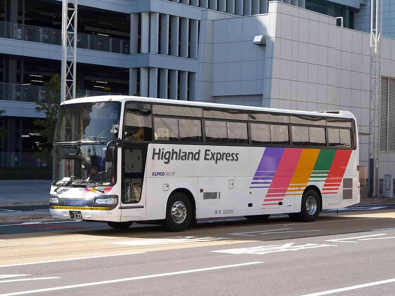 Fleet of ALPICO Highland Bus. Model: Hino Selega R GJ (KL-RU1FSEA) License plate: NNM200 KA0227（松本200か・227） Place: Tokyo International Airport: Ota ward, Tokyo Japan